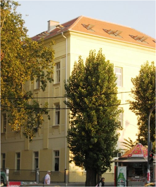 School - street view 2